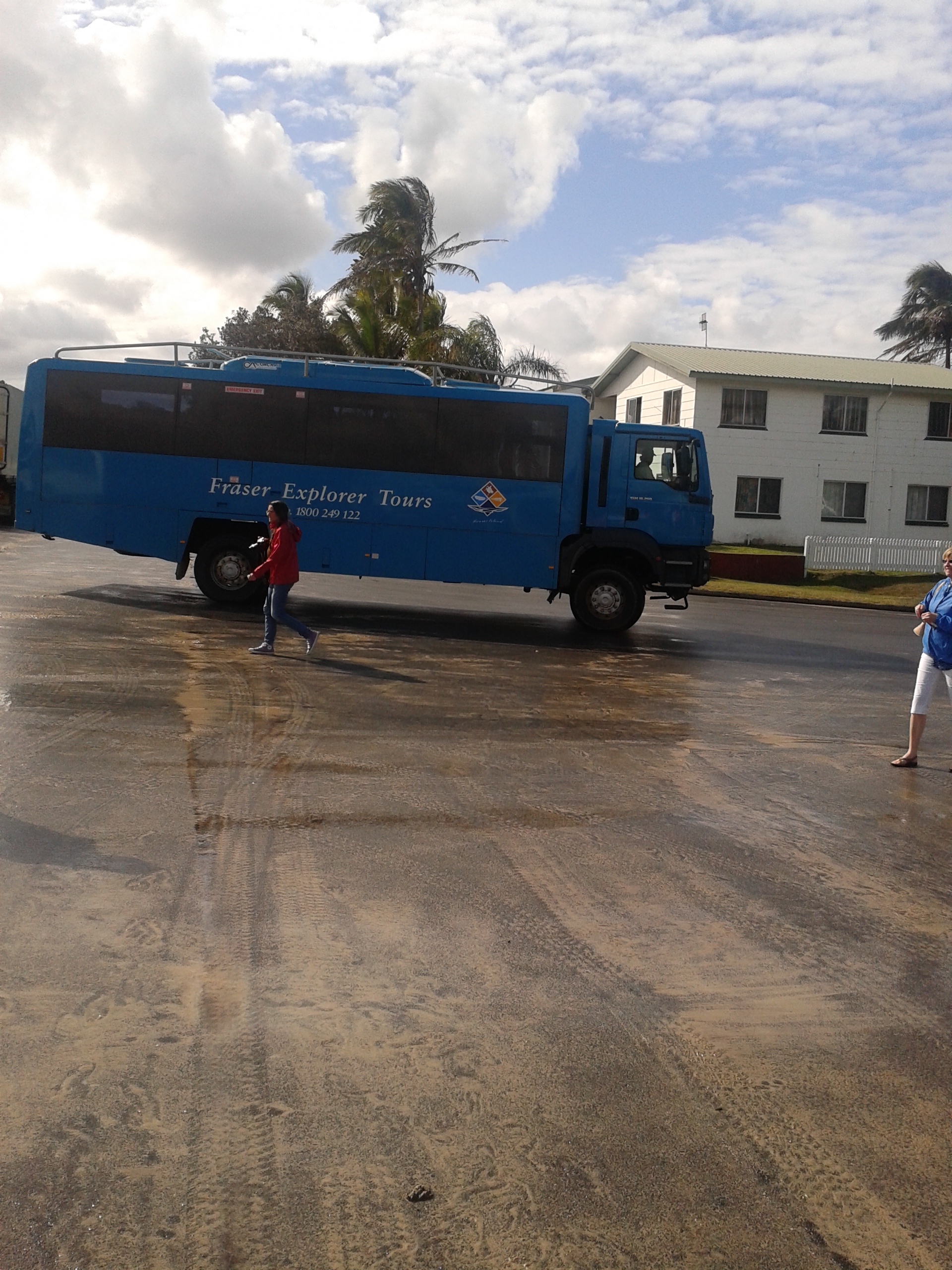 4wd bus fraser island